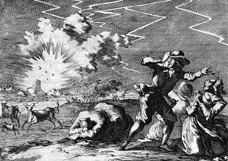 The pulverturm (Gunpowder tower) of Rheinberg blows up in 1636.